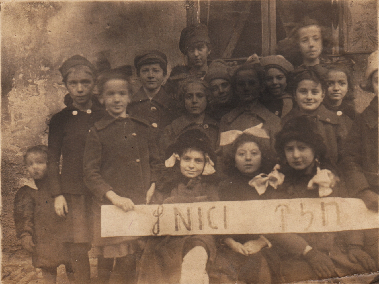 Orthodox school for girls Beth Jaakow in Bielsko Biala, Poland, abt. 1938